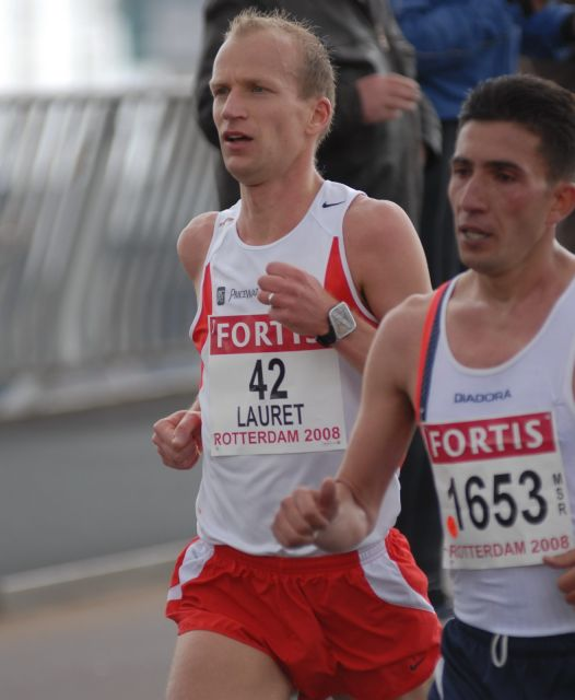 Martin Lauret during Rotterdam Marathon 2008